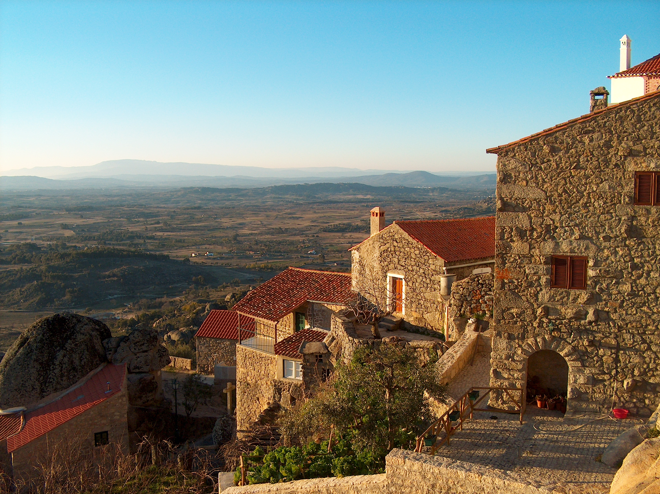 Another view of Monsanto.